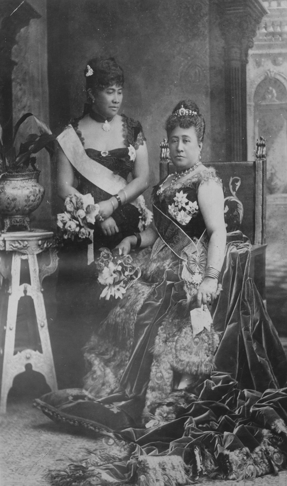 Queen Kapiolani and Crown Princess Liliuokalani at Queen Victoria's Golden Jubilee.